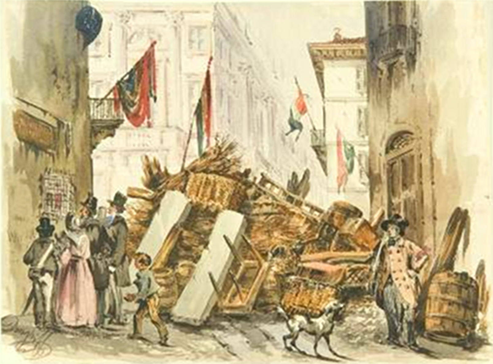 Watercolor showing barricate across a Milan road at time of "Cinque giornate" revolution (March 1848)